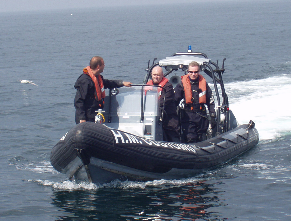 HMRC Rib approaching Cornish Maiden